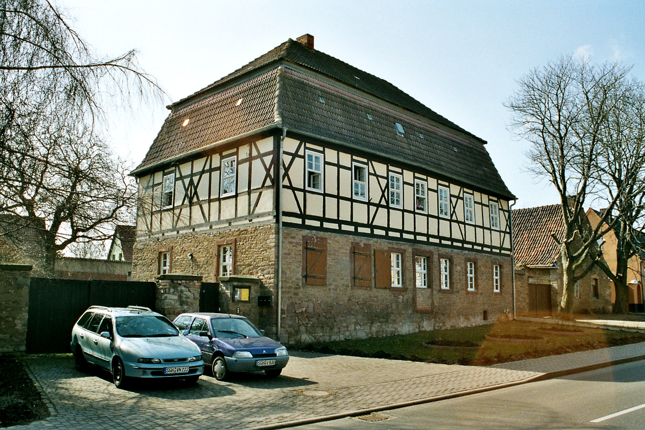 The parsonage